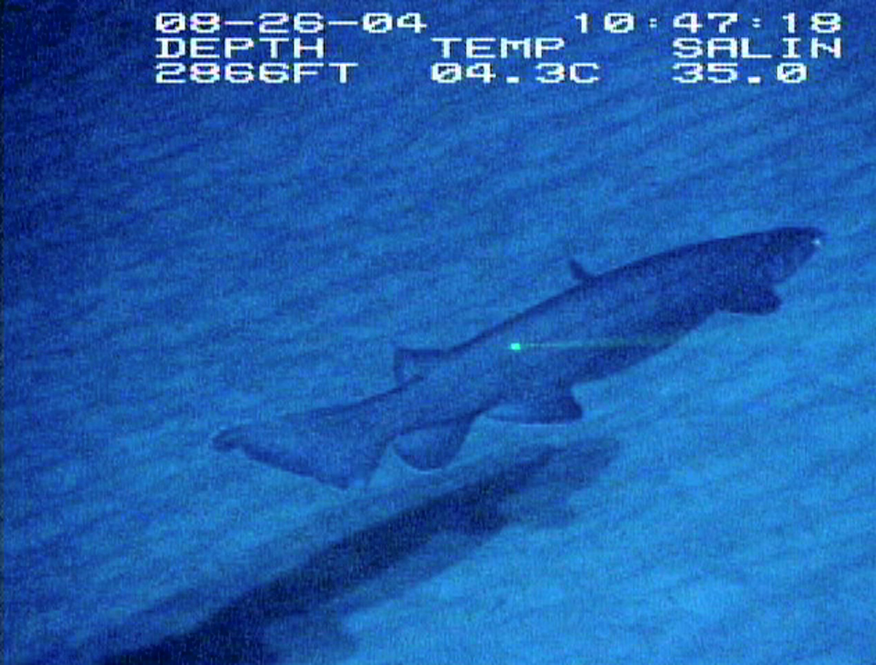 The first known video footage of a frilled shark (Chlamydoselachus anguineus) in its natural habitat.